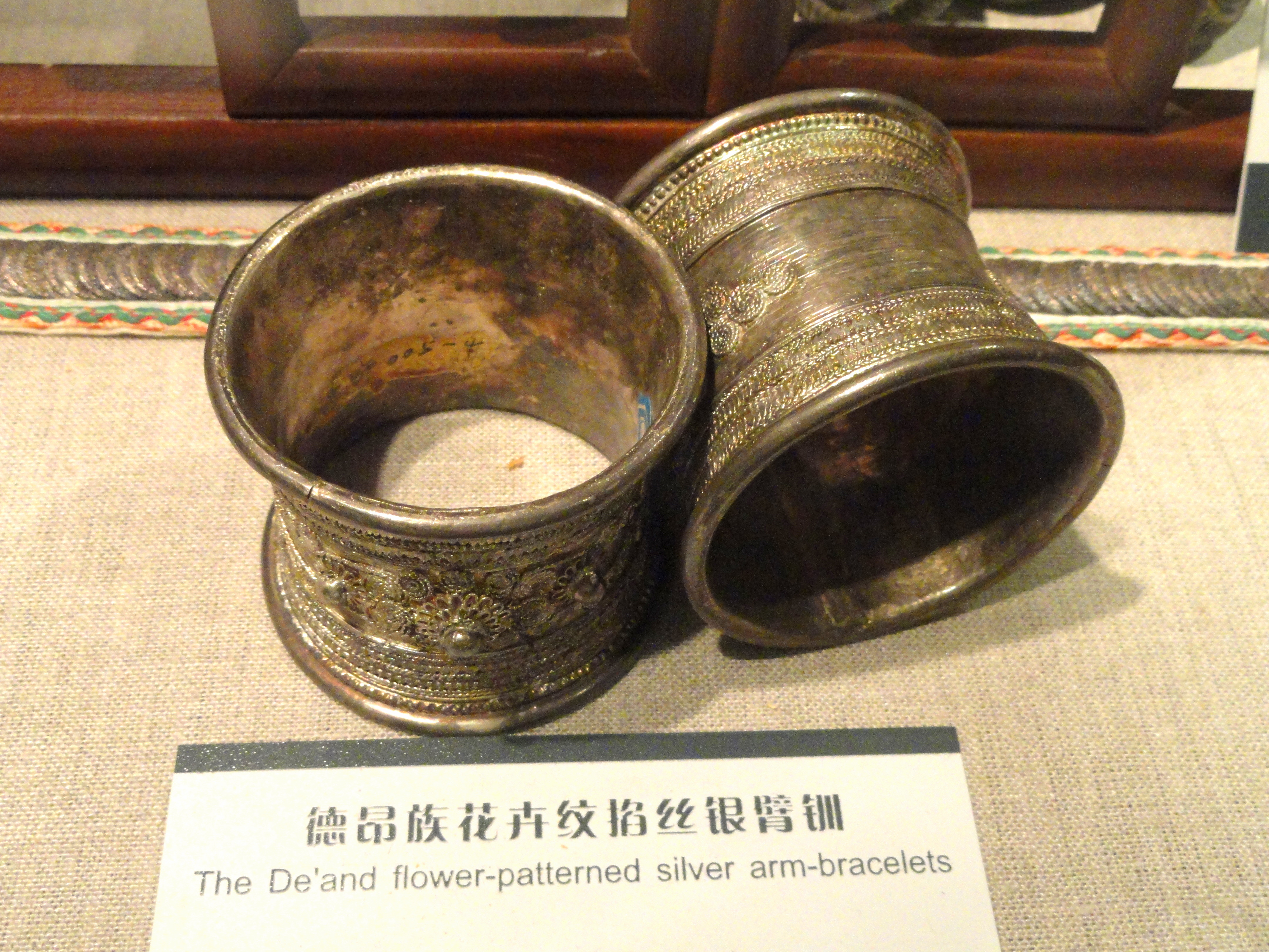 De'ang silver bracelets. Jewelry in the Yunnan Nationalities Museum, Kunming, Yunnan, China.